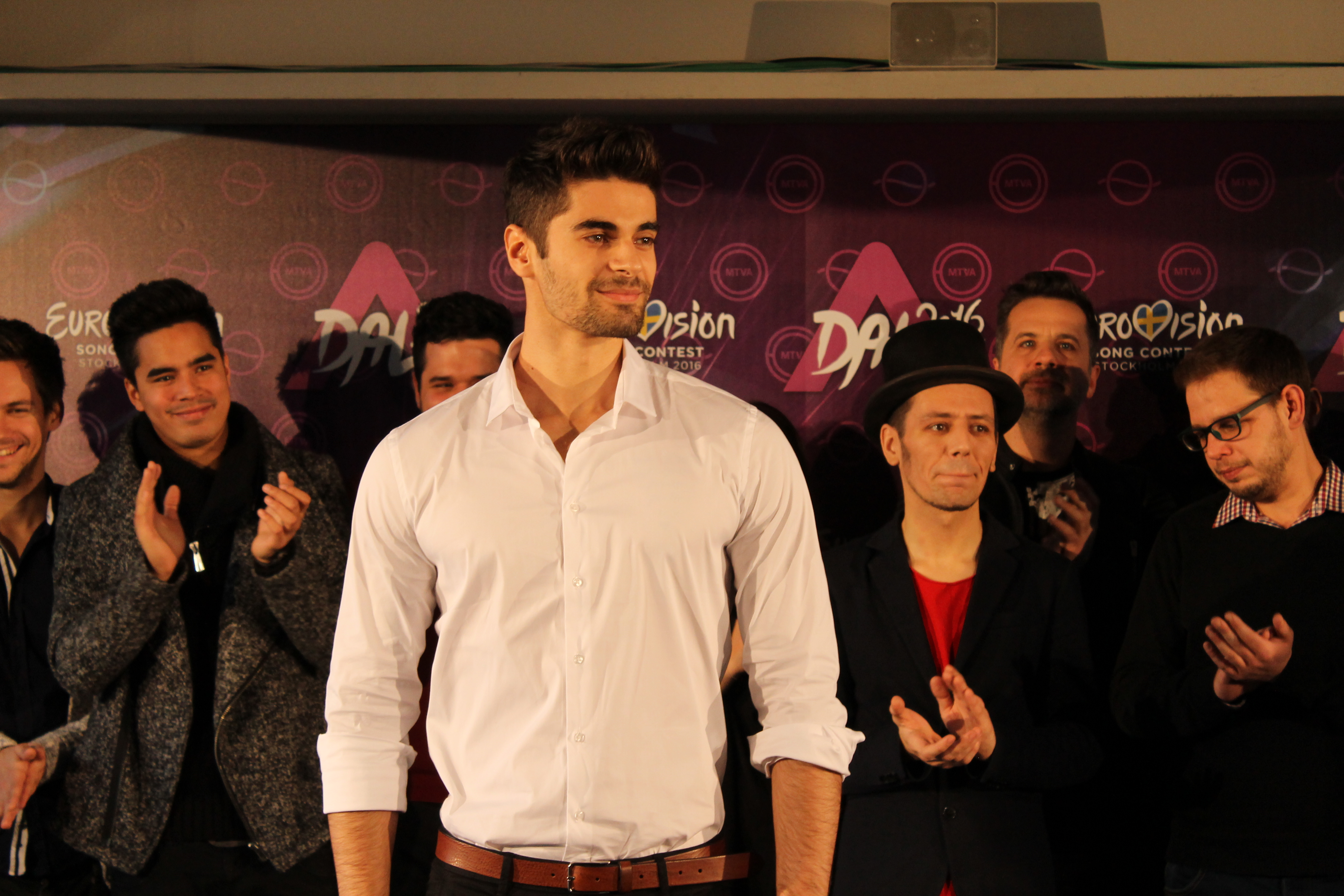 A Dal 2016 participant: Freddie